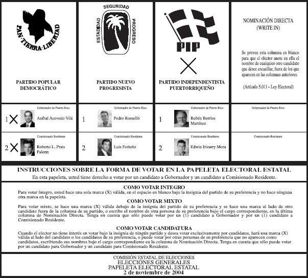 An example of the voting ballot for the 2004 elections of the governor of Puerto Rico illustrating the Mixed Vote allowed by Rule 50 of the CEE Modified image based on an image publicized by the State Comission of Elections of the Commonwealth of Puerto Rico, The image has been released to the public domain without copyright restrictions. Por esta papeleta que mucho sufrio puerto rico